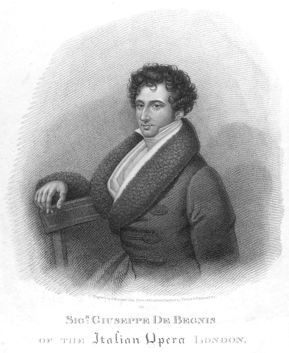 Opera Singer Giuseppe de Begnis (1793-1849)